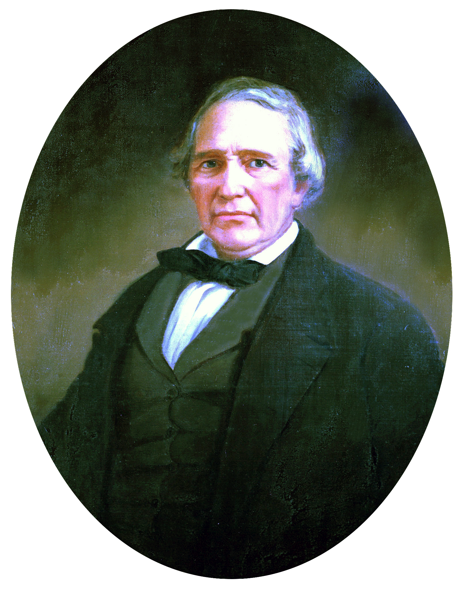 Edward Bishop Dudley, 1836 - 1841 From the General Negative Collection, State Archives of North Carolina, Raleigh, NC.